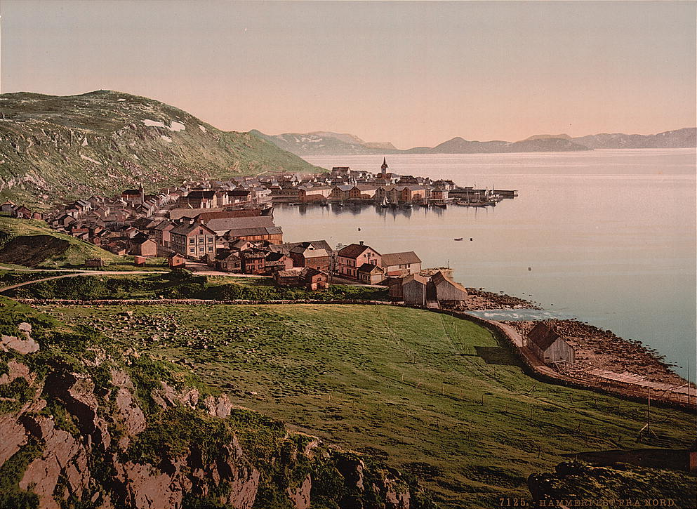 Hammerfest in Norway from the north